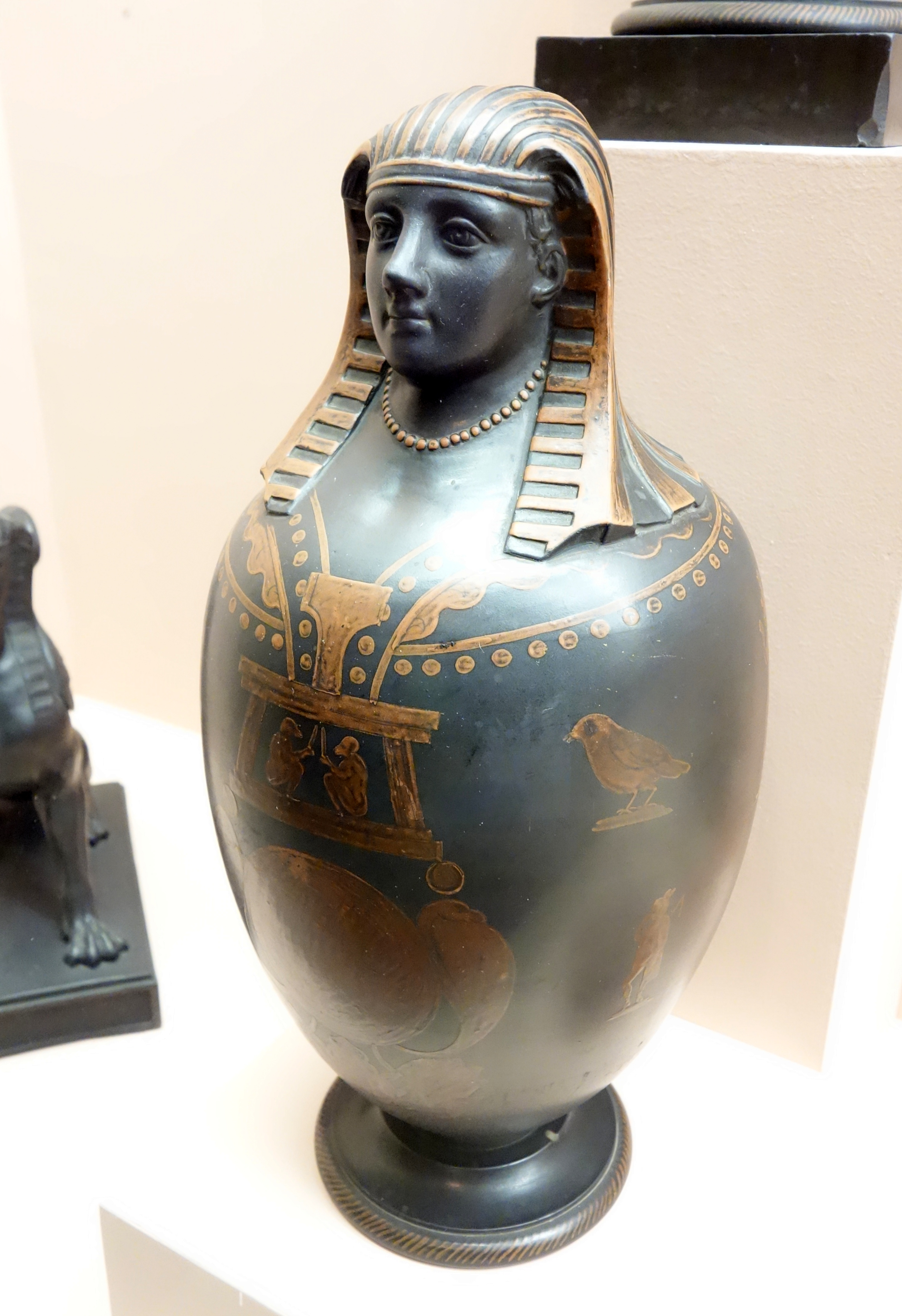 Exhibit in the Brooklyn Museum - Brooklyn, New York, USA. This artwork is in the public domain because the artist died more than 70 years ago.